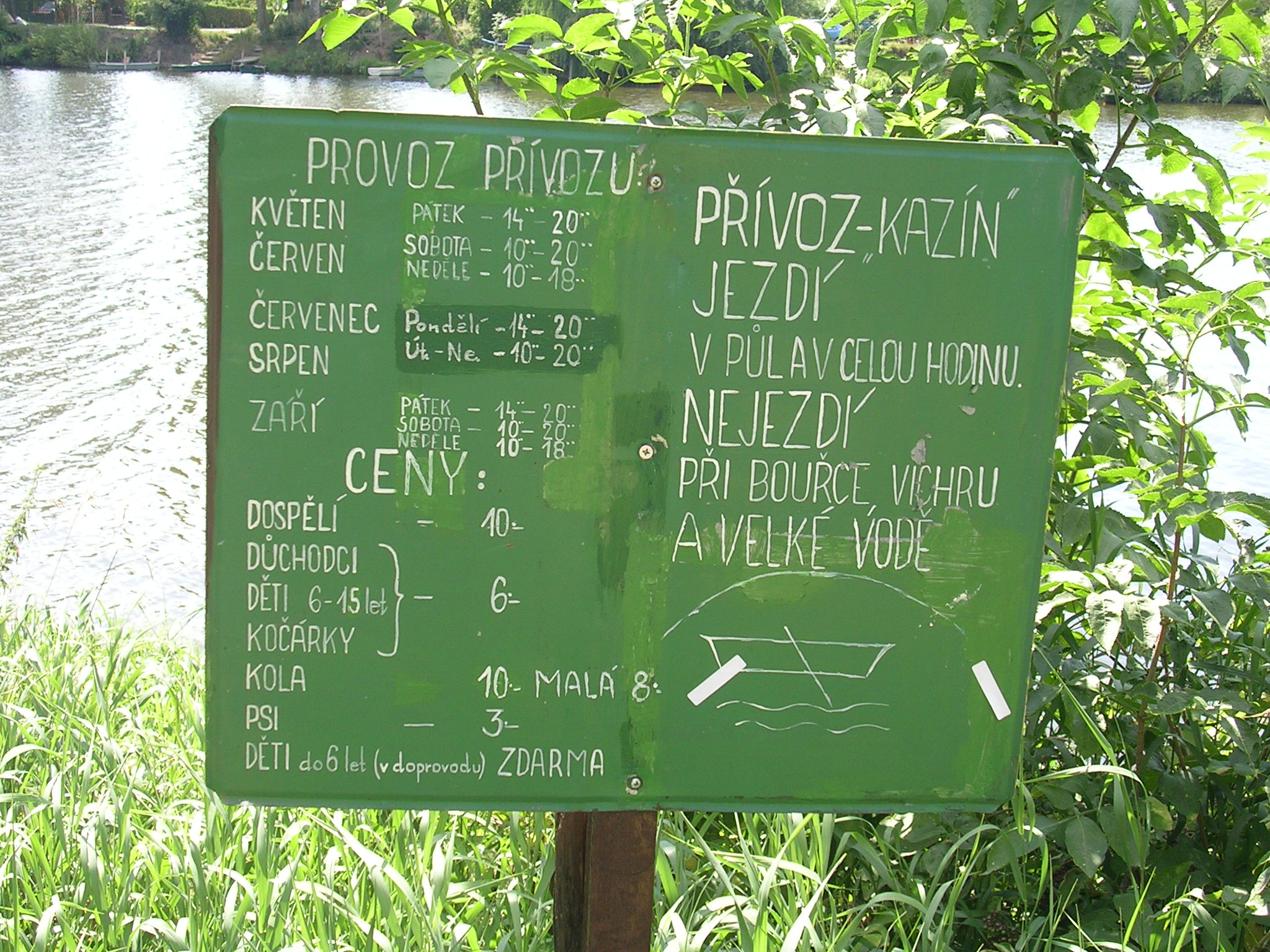 Berounka ferry Kazín, Czech Republic. A schedule.